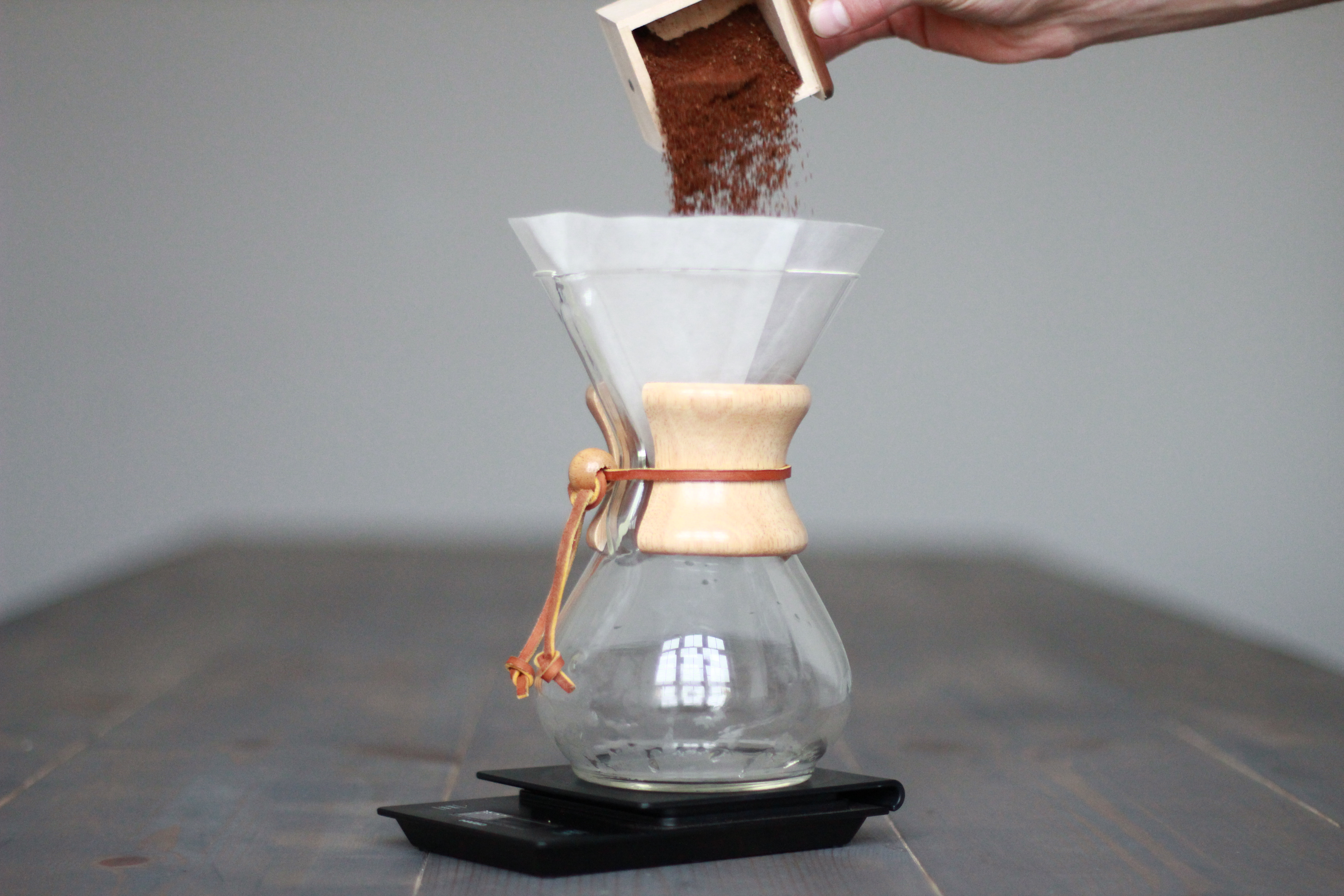 Die Chemex 6 Cup